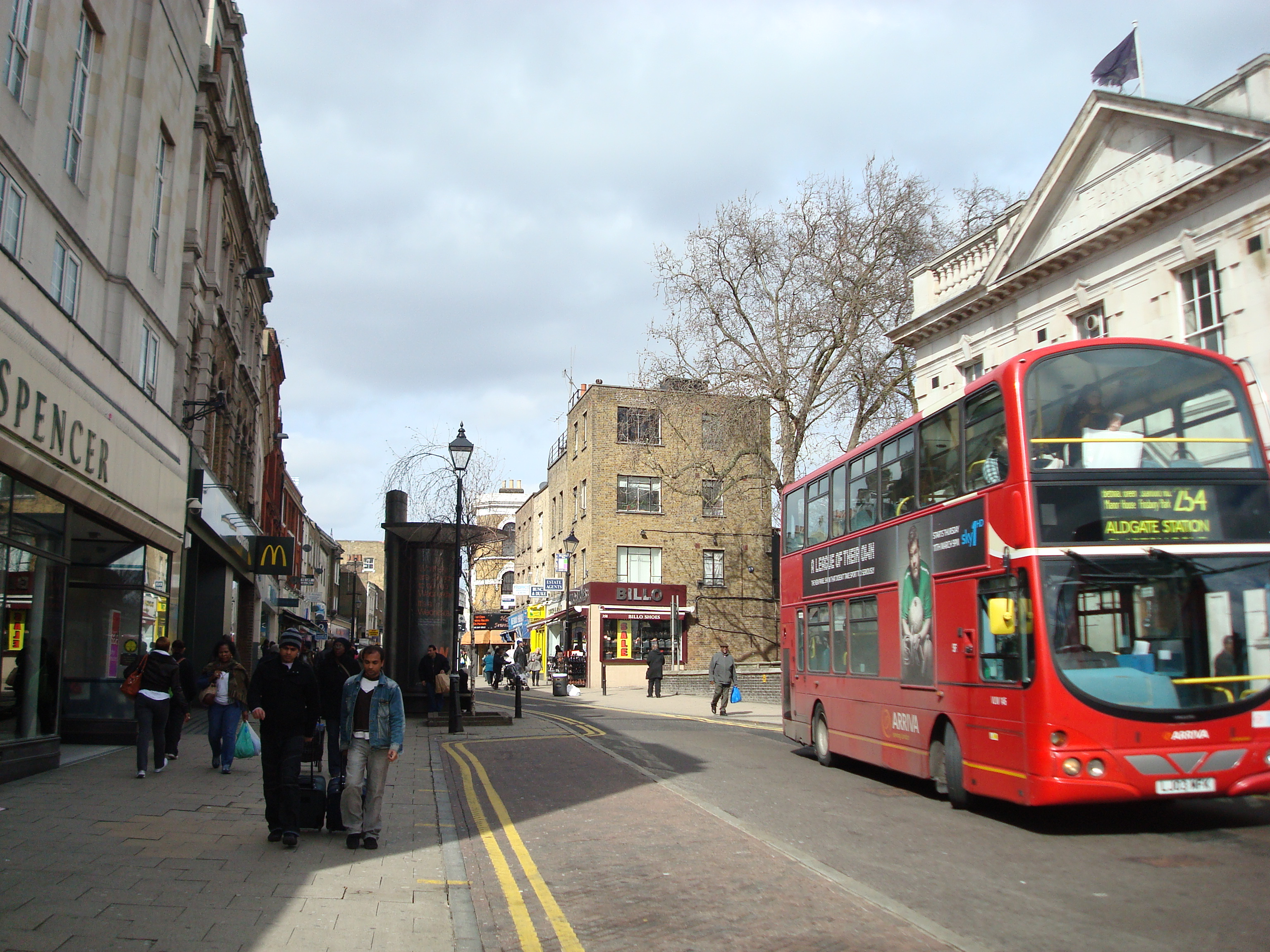 Mare Street, London E8